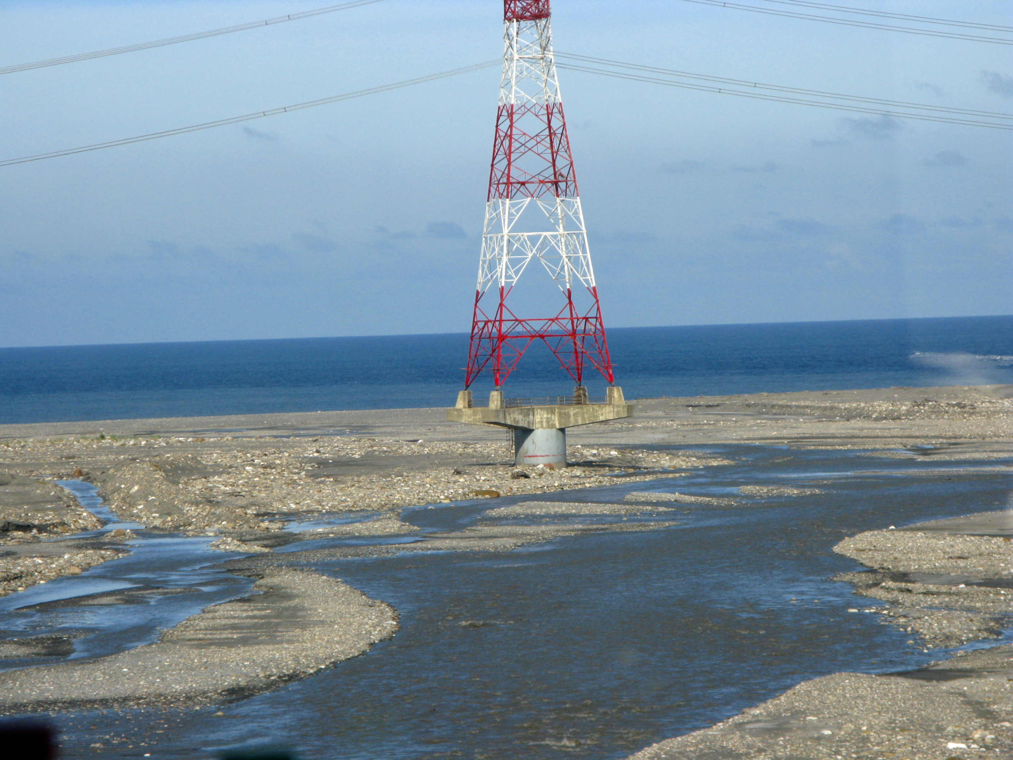 Peace River, Taiwan.